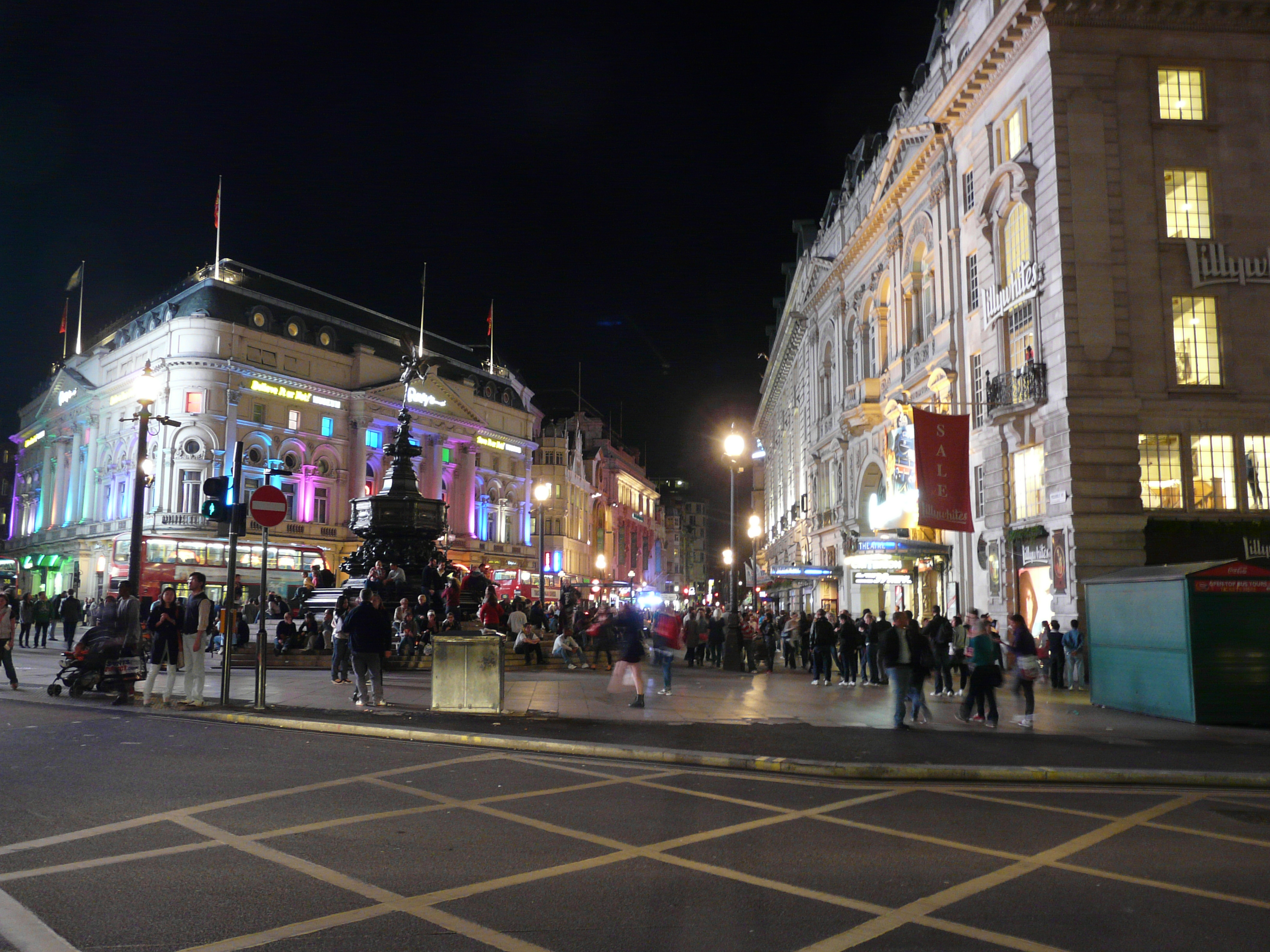 Live on the 22th of September, 2010. London, UK ©© Published under Creative Commons in the Metapolisz DVD line. All of the photos and vids in the Metapolisz DVD line are under Creative Commons and can be used even for commercial – for profit – purposes. Recommended Citation Derzsi Elekes Andor: Metapolisz DVD line